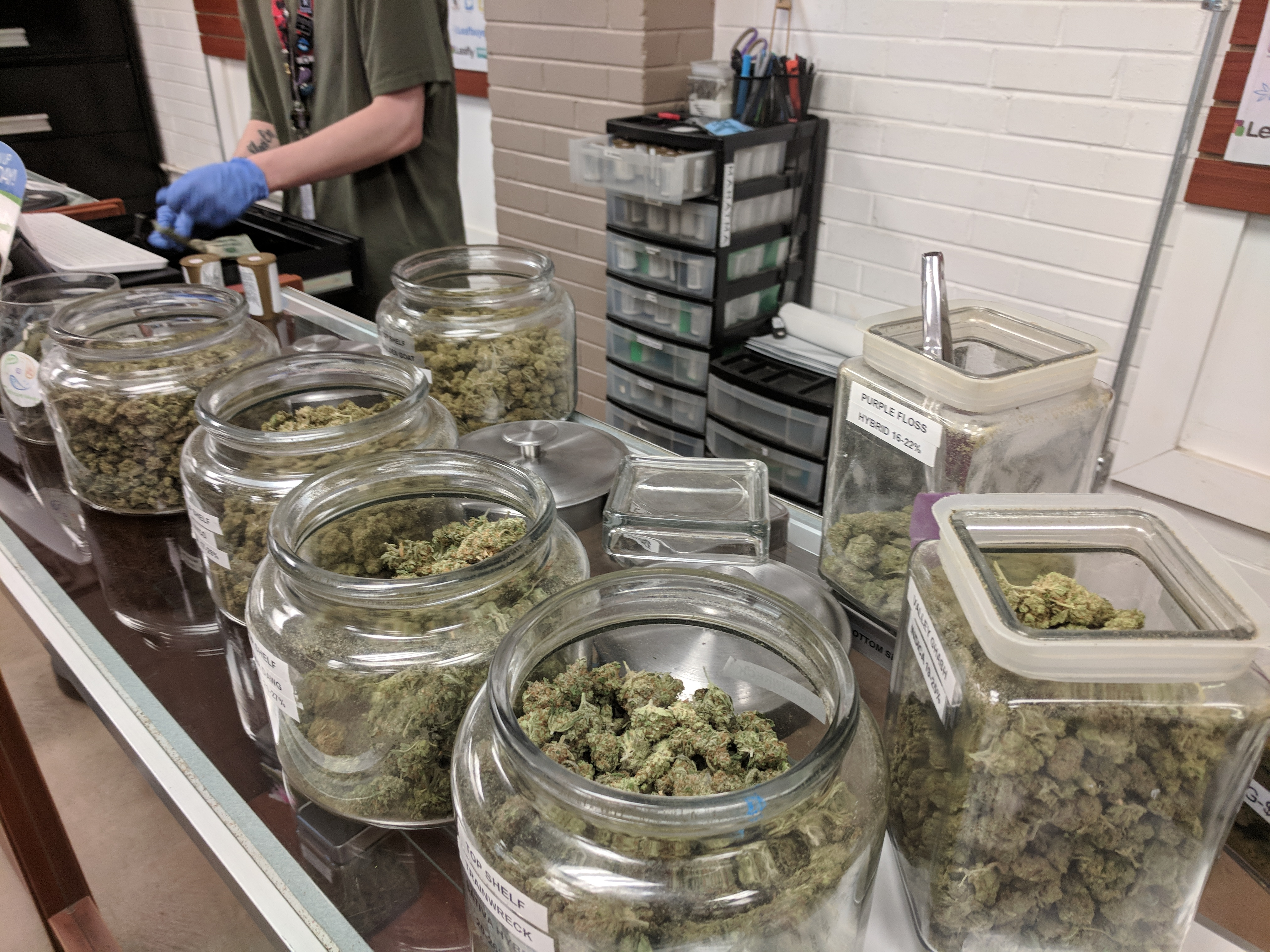 A variety of strains at a recreational marijuana dispensary in Denver, Colorado